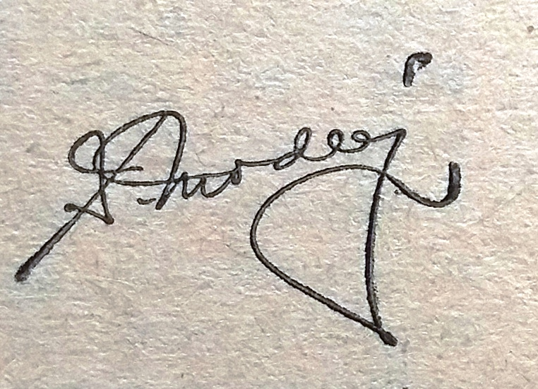 Signature of Bohumil Modrý, Czech ice hockey goal keeper (1941)